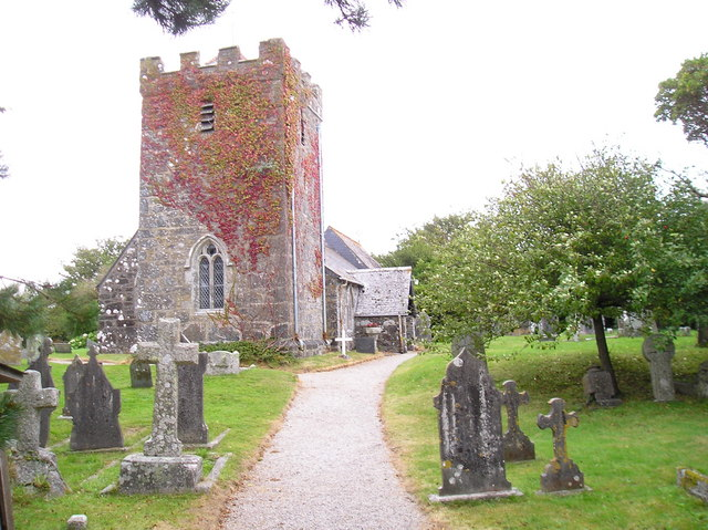 Ruan Major Church, Grade-Ruan, Cornwall The earliest record of the Church was in the Episcopal Register of the 12th. Bishop of Exeter, Bishop Bronescombe.